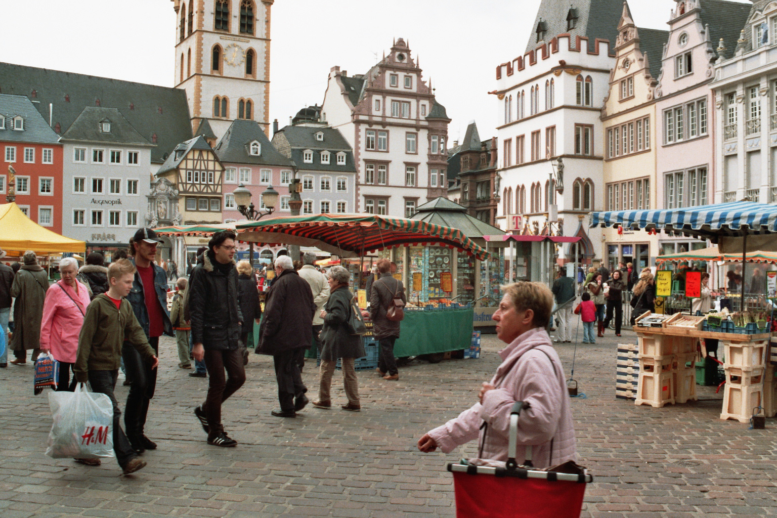 German City of Trier, marketplace Selfmade photo April 2006 Niki Cortolezis SOMBRERONICK